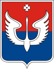 Yusva rayon (Perm krai), coat of arms